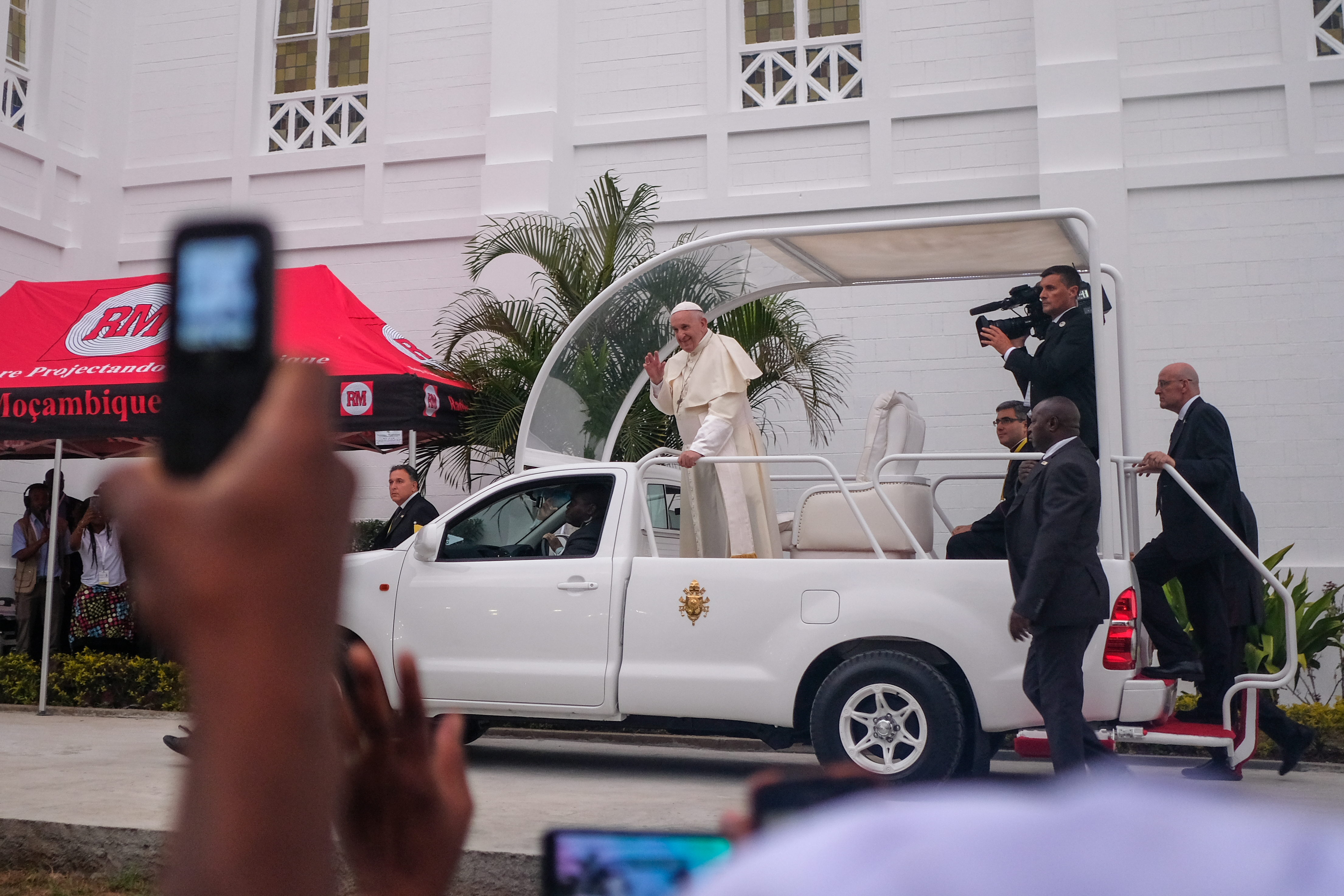 This is an image with the theme "Africa on the Move or Transport" from: Mozambique